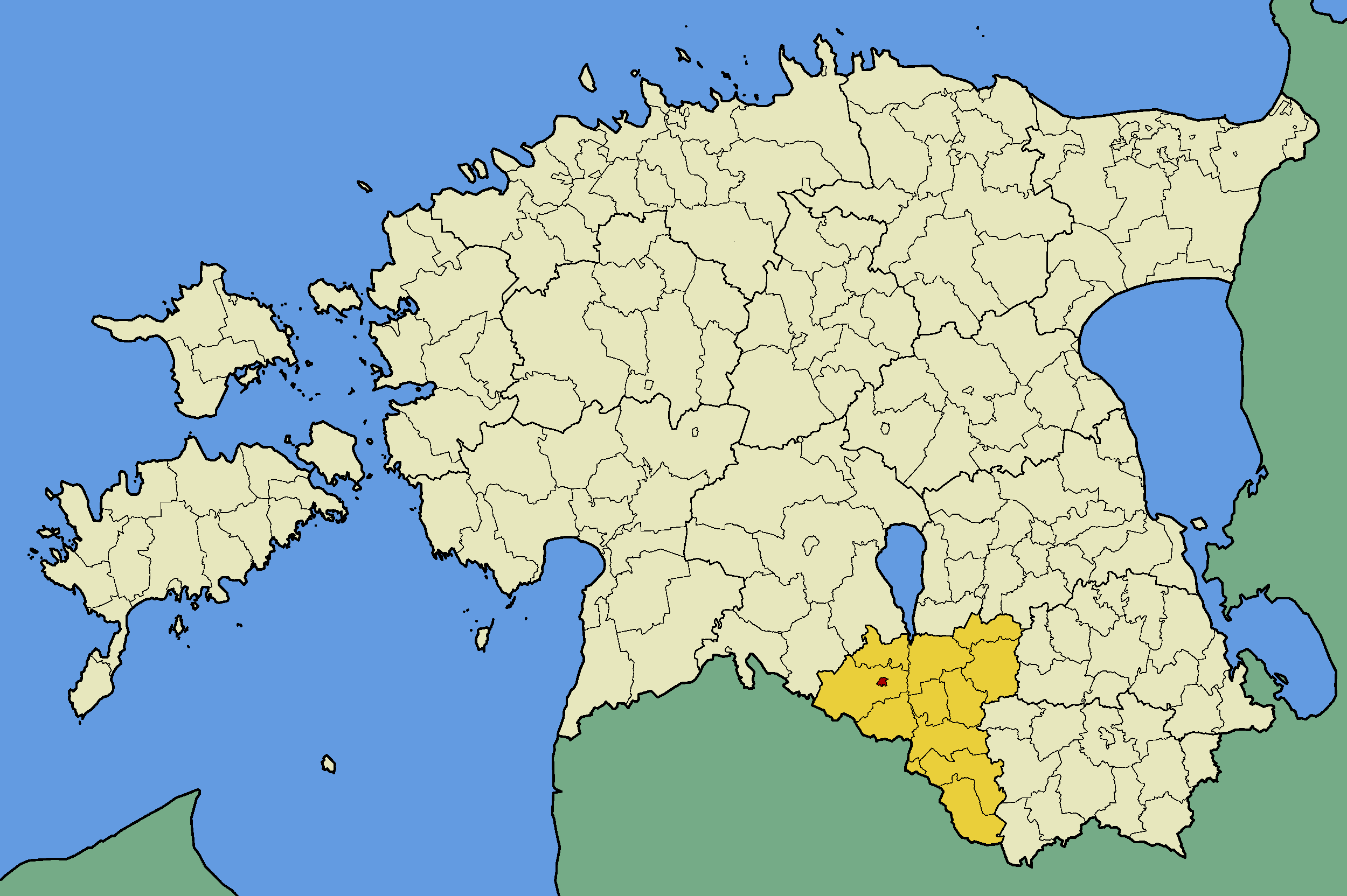 Map of Estonia with borders of municipalities (parishes). Valga county and Tõrva town municipality emphasized.